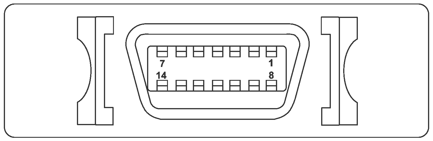 A diagram of a D4 video connector. Drawn in Visio by myself.